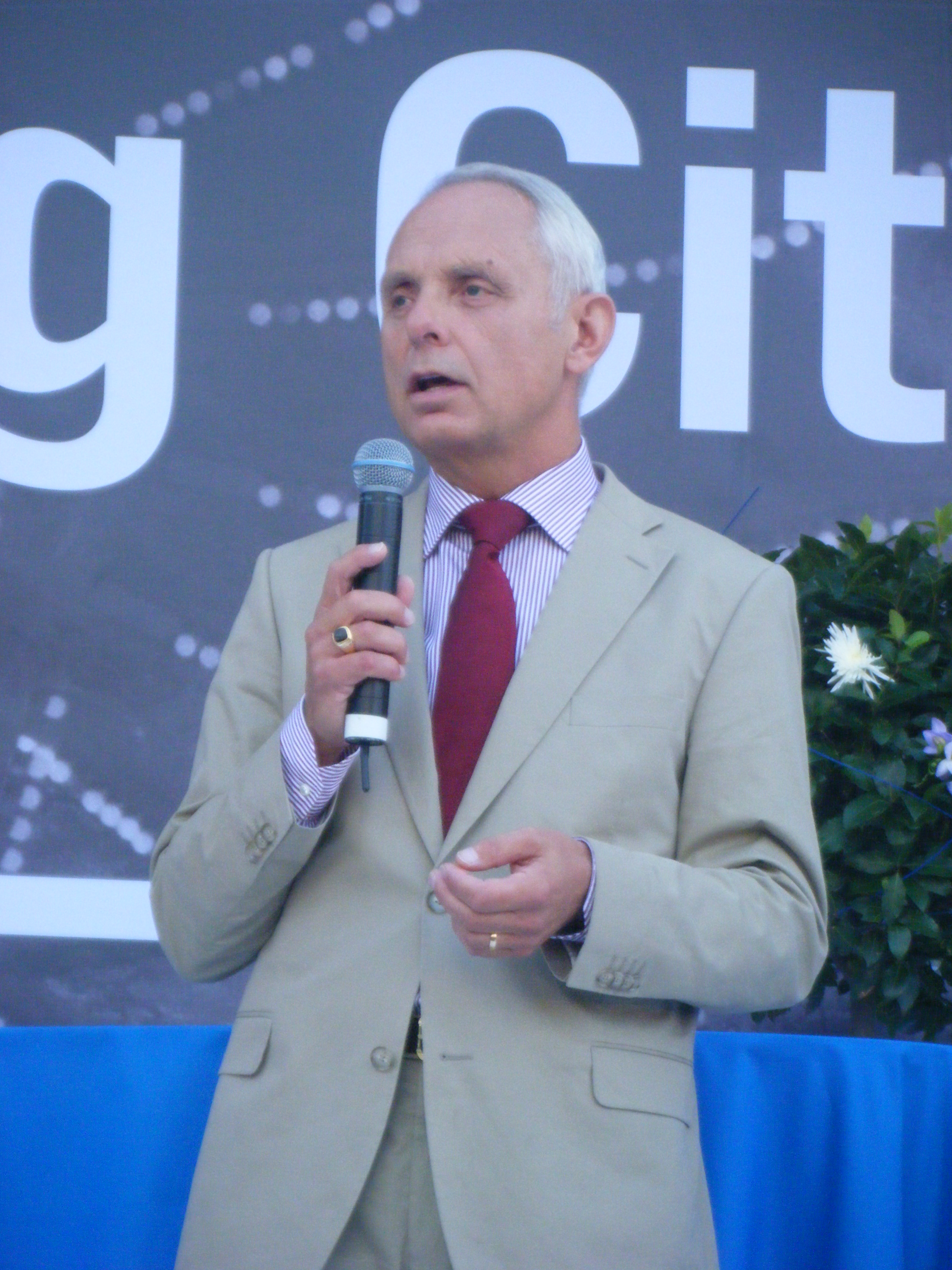 President for Stockholm Local Traffic